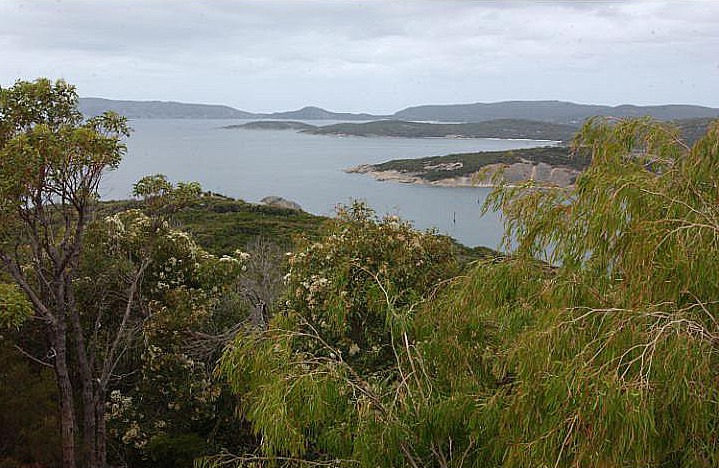 VIEWS FROM PRINCESS ROYAL FORTRESS on Mount Adelaide, Albany, Western Australia